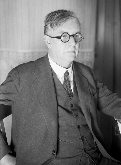 Cropped version of File:Bundesarchiv Bild 147-0209, Richard Wilhelm.jpg